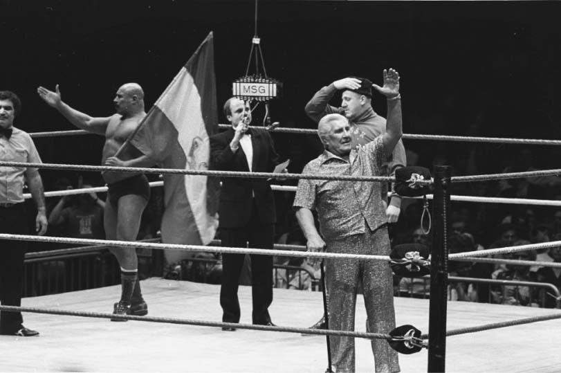 Found this one of manager Freddie Blassie with one of his cohorts "The Iron Shiek" Picture was taken in Madison Sq. Garden in the early 80's